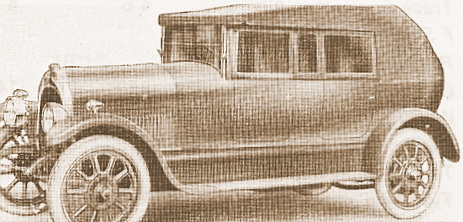 1923 Ruston-Hornsby 20/25 hp